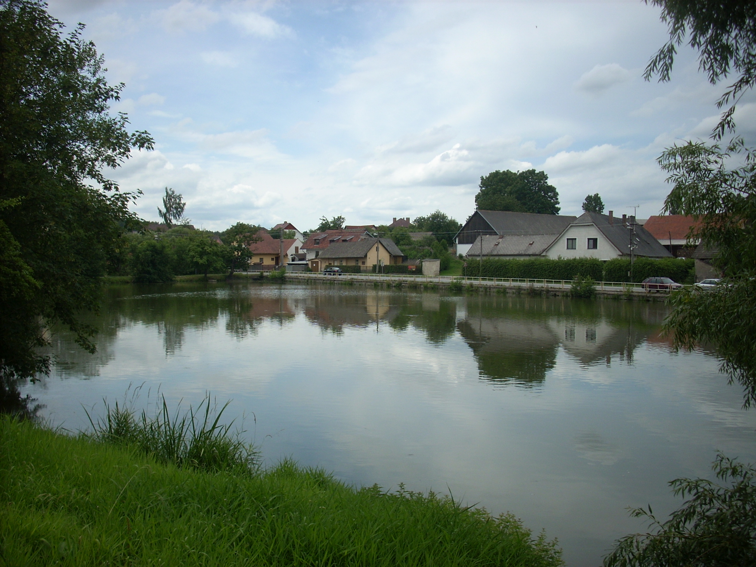 Jamné, pond in the center